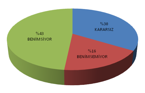 The view on evolution by biology students at Hacettepe University, 2008: 43% believe, 16% don't believe, 30% undecided.